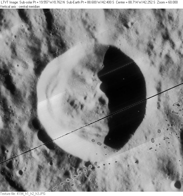 Crater Graff. Detail from Lunar Orbiter IV-194H. High resolution scans from the USGS Lunar Orbiter Digitization Project remapped to a north-up aerial view by LTVT.